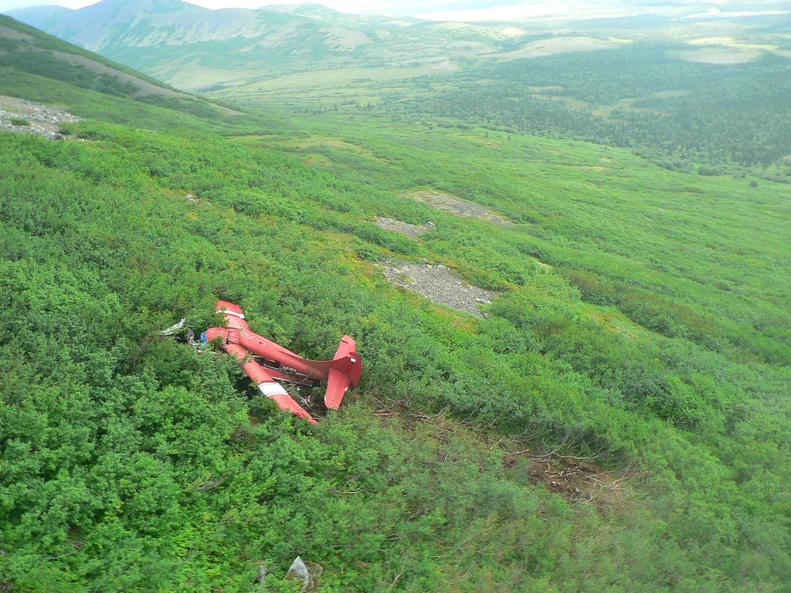 A view of the wreckage of N455A, following an aircraft accident that claimed five lives including a former US Senator (Ted Stevens).